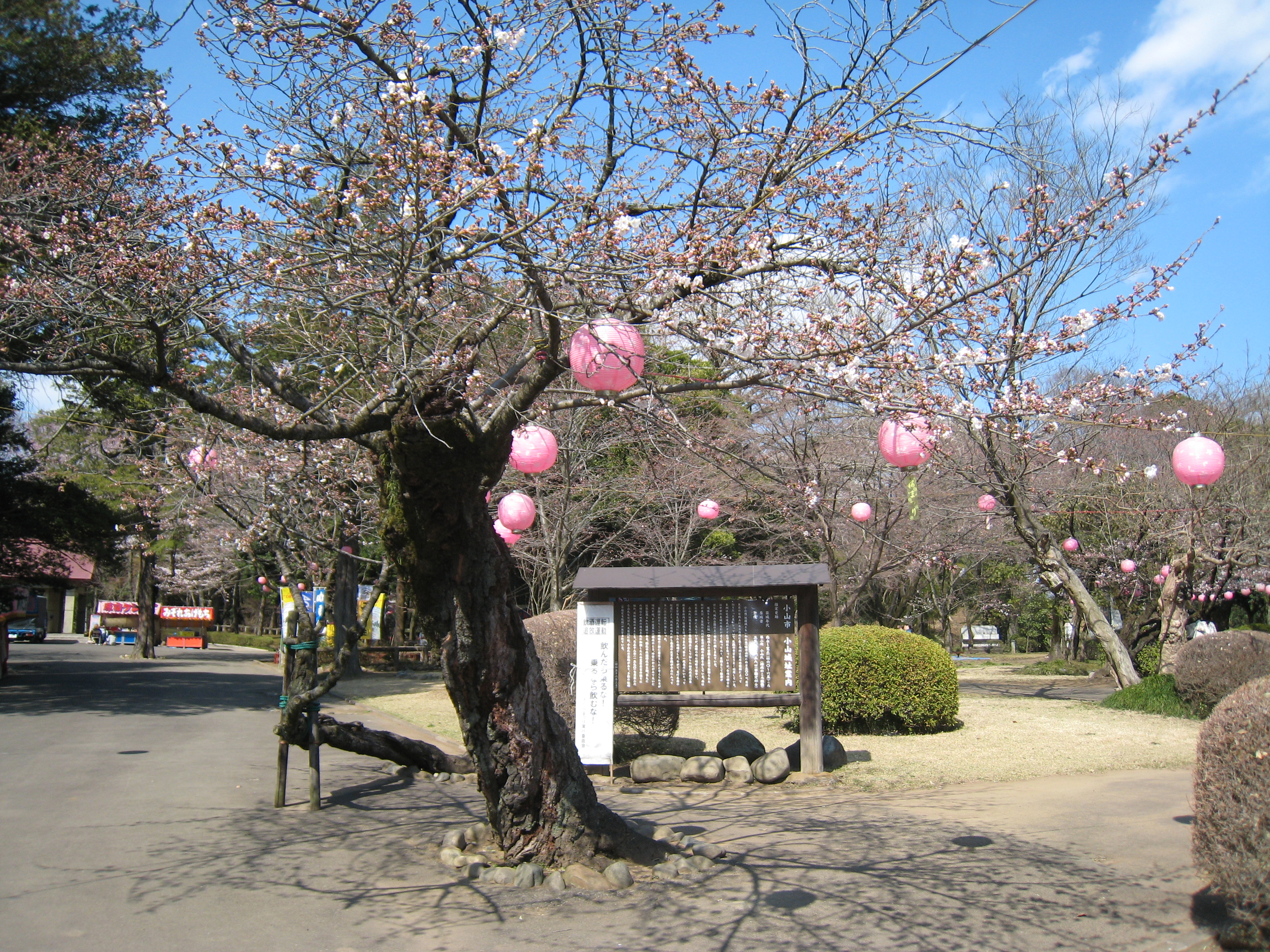 Main park of Oyama-jo castle ruin (Oyama city, Tochigi Prefecture, Japan)